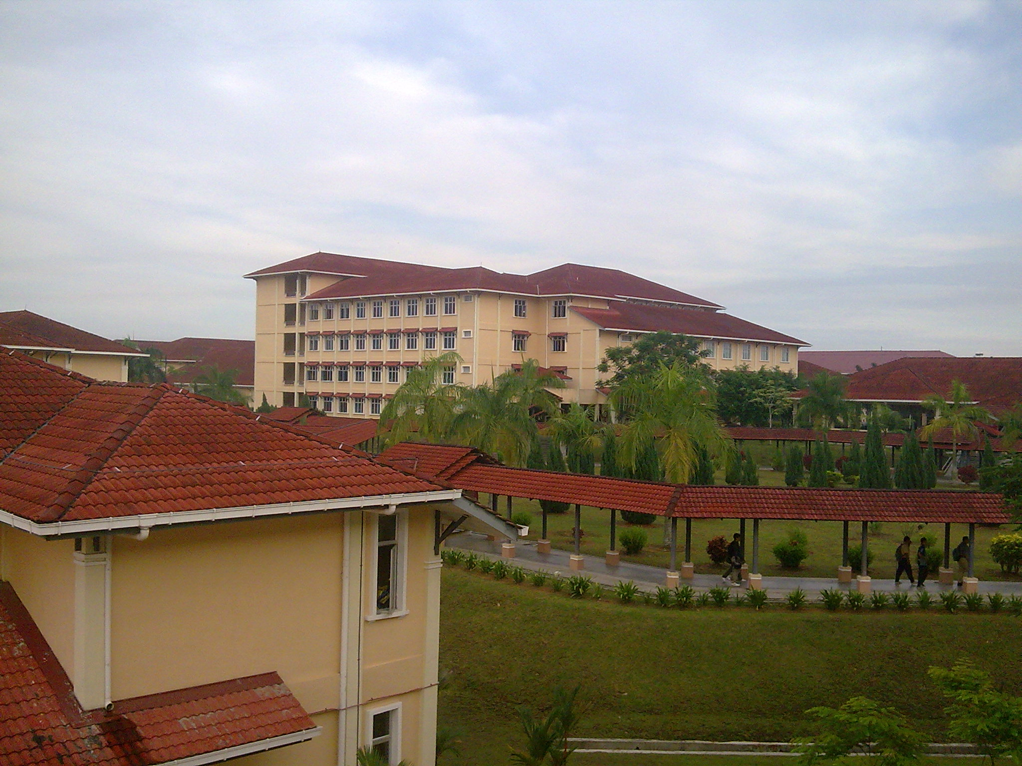 ptsb